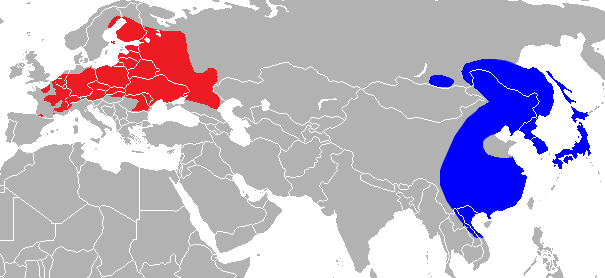 Raccoon Dog range europe asia